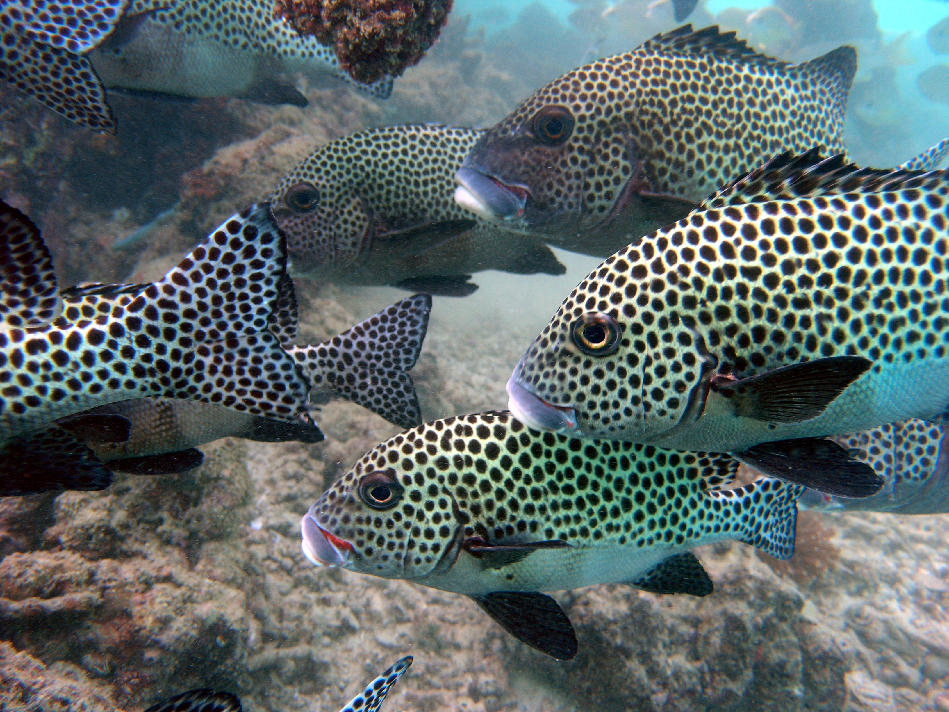 Image of Harlequin sweetlips. Plectorhinchus chaetodonoides. Taken at Sipadan, Borneo, Malaysia.